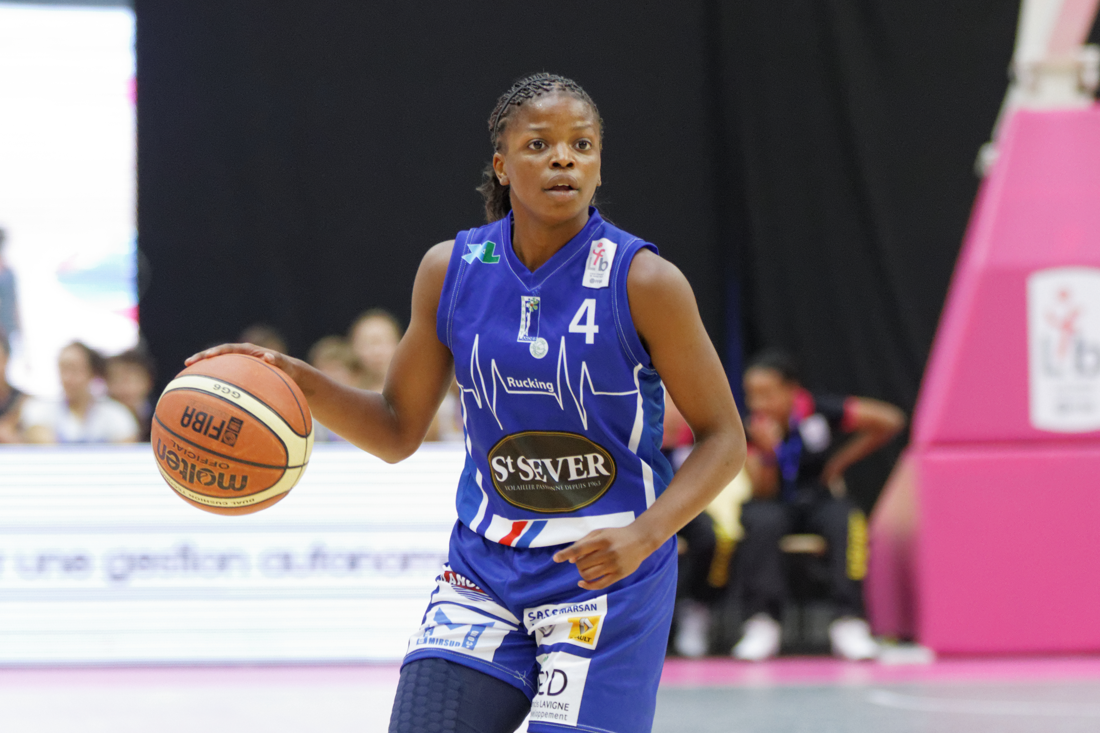 Open LFB, Villeneuve d'Ascq-Basket Landes, October 5th, 2013.